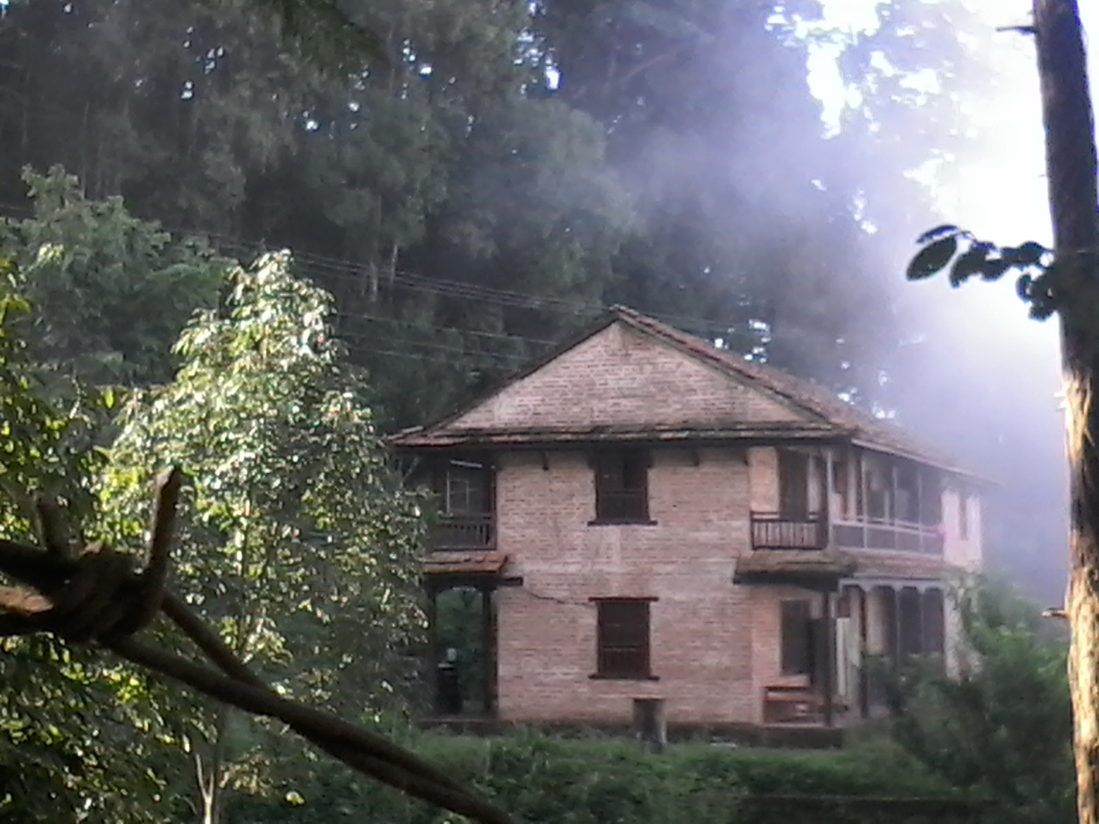 A picture of a traditional house in Gorkha district,Nepal.